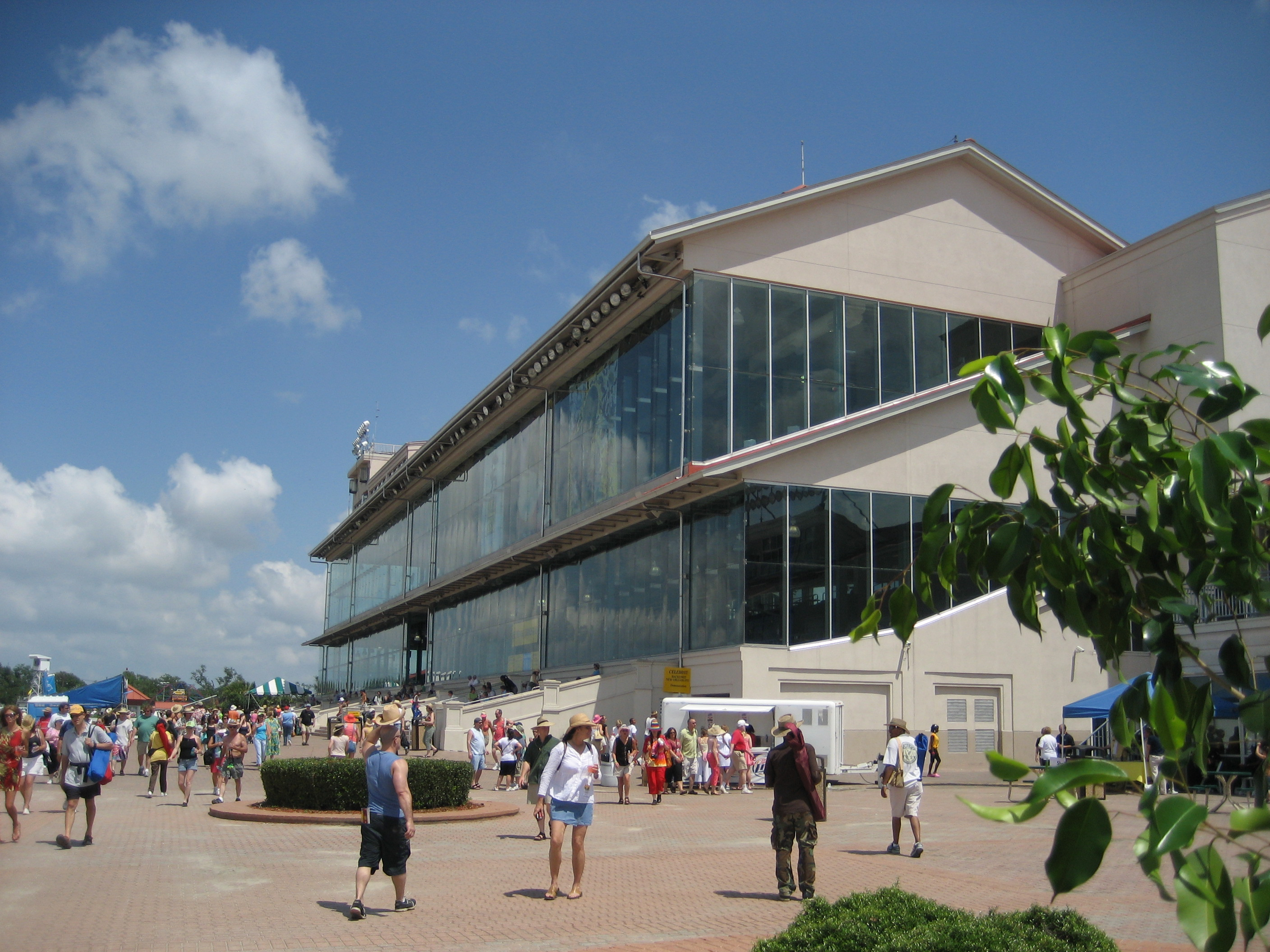 New Orleans Jazz & Heritage Festival: View to Fairgrounds grandstands main building.